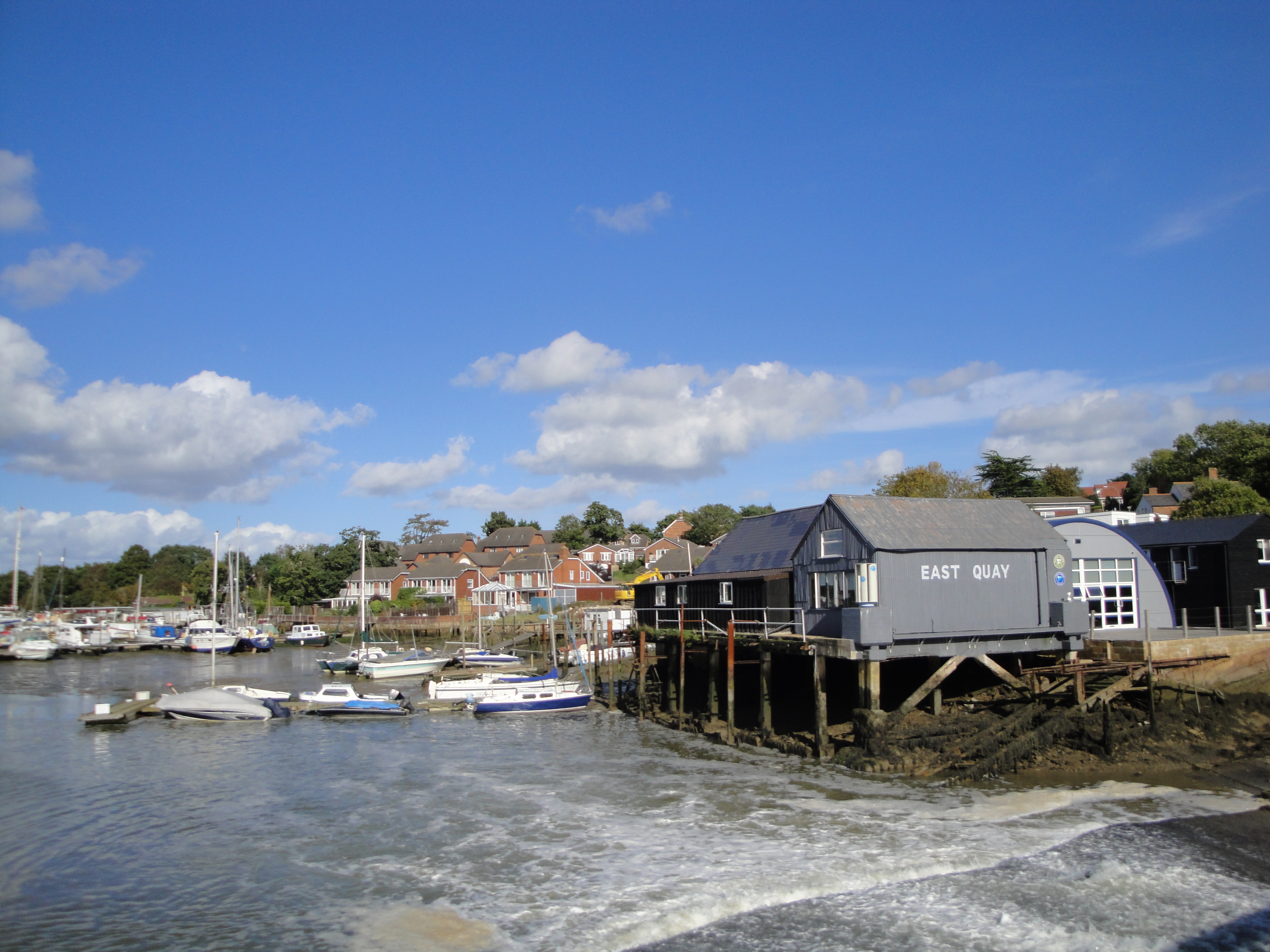 The harbour at Wootton Creek, Wootton, Isle of Wight.